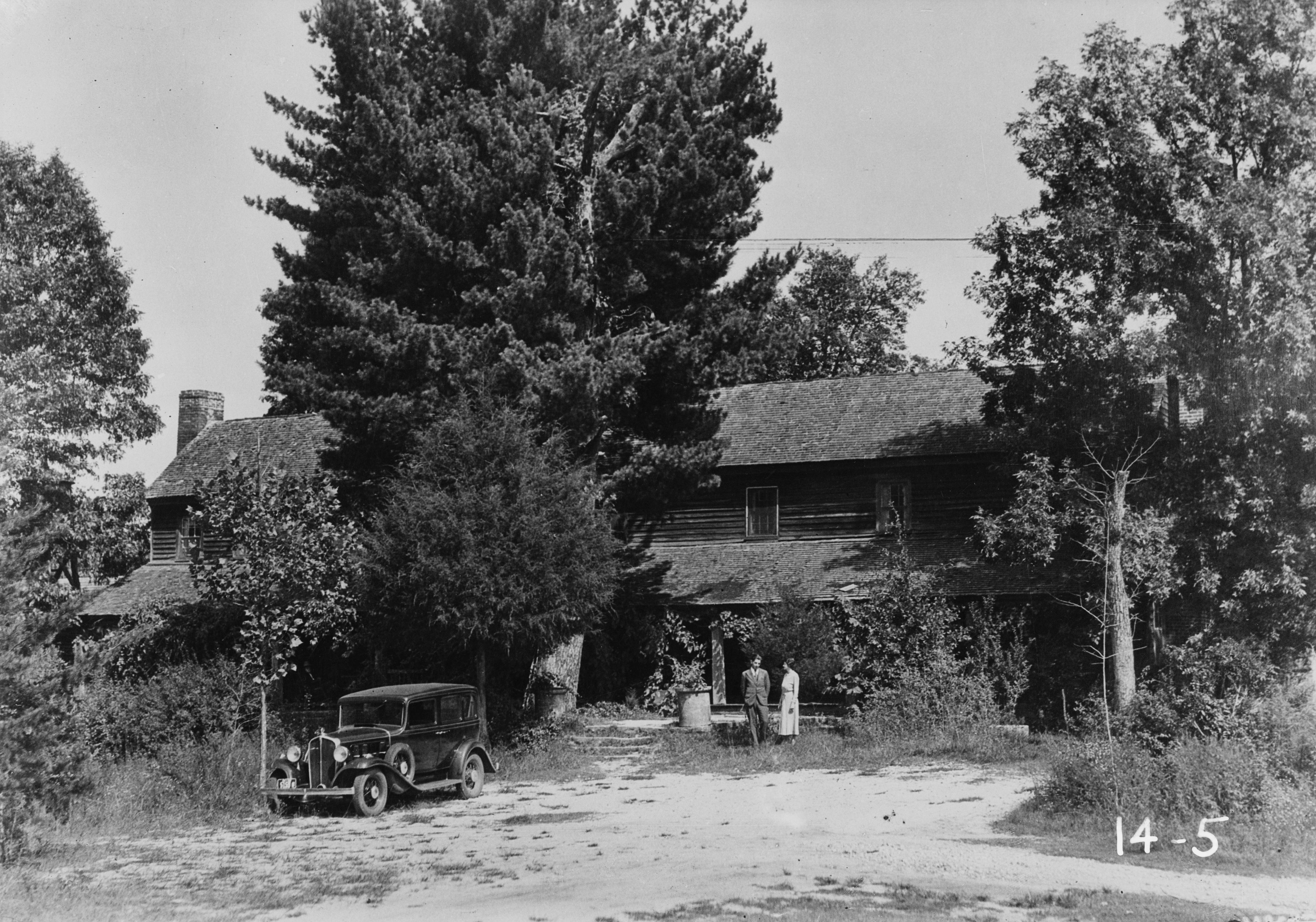 Front of Traveler's Rest, a historic inn located along U.S. Route 123 east of Toccoa in Stephens County, Georgia, United States. Built in 1816, it has been designated a National Historic Landmark.